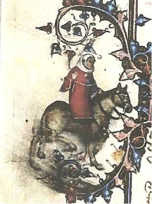 Man of Law from the “Ellesmere Chaucer” (Huntington Library, San Marino) (image